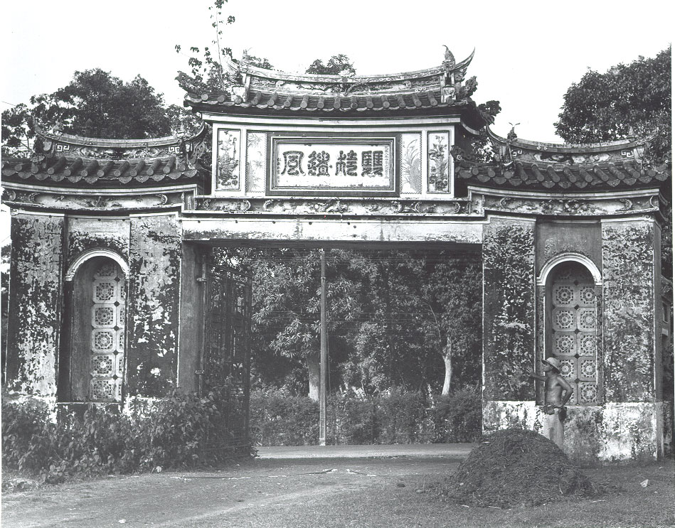 Lim Chin Tsong Palace entrance မြန်မာဘာသာ: ကုက္ကိုင်းနား ချင်းချောင်းရိပ်သာအဝင်